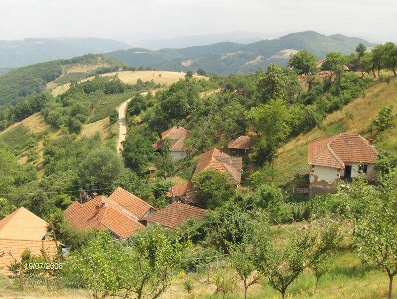 Grad (Town),zaseok Srejići in Brus municipality,near Koznik fortress,Serbia